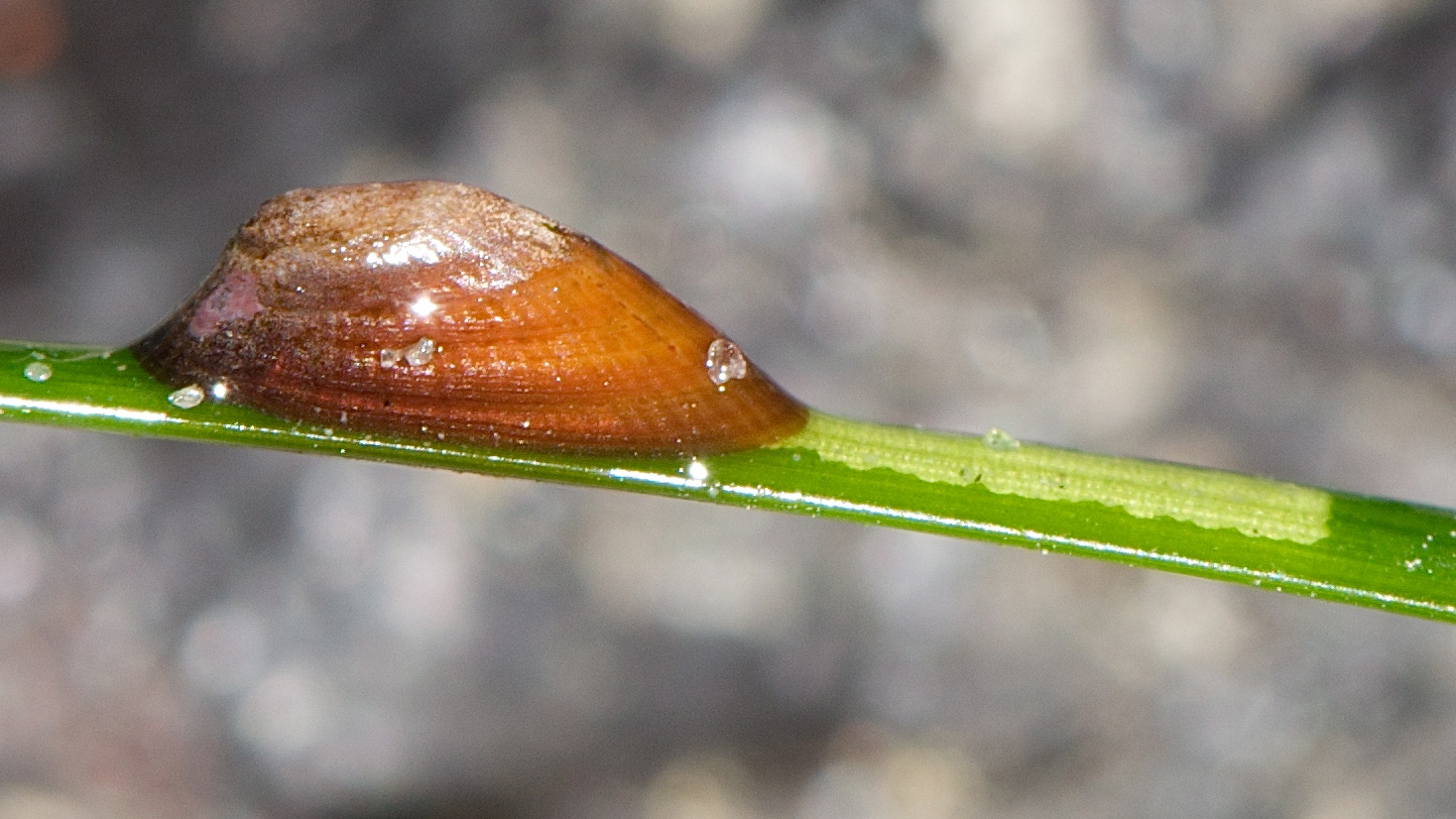 Photo of Tectura palacea.